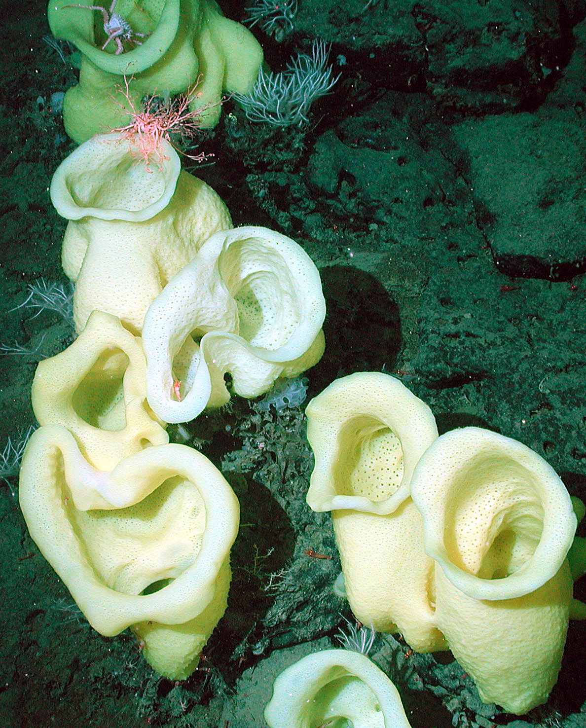 Caption: Yellow Picasso sponges (Staurocalyptus sp.) at 1330 meters water depth. Image ID: expl0951, Voyage To Inner Space - Exploring the Seas With NOAA Collection Location: California, Davidson Seamount